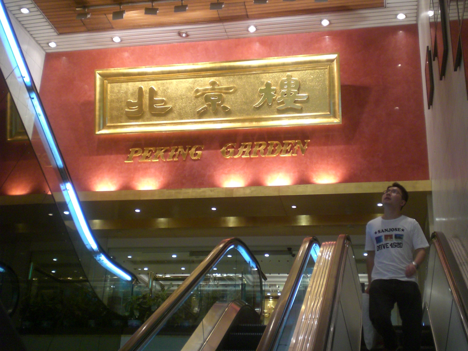 尖沙咀星光行 北京樓